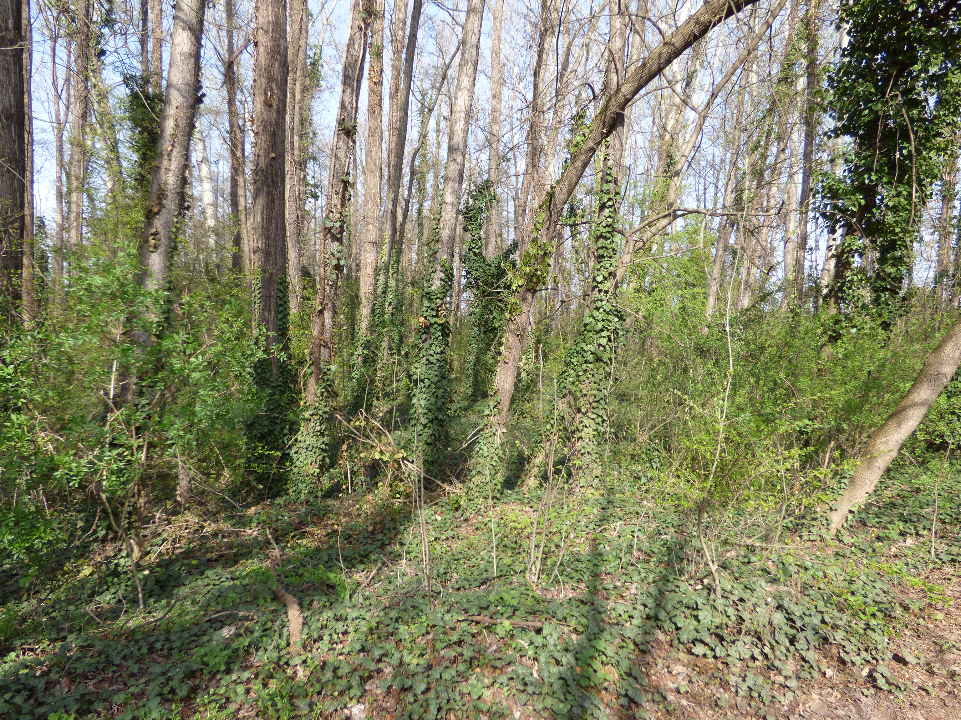 Galériaerdő a Ráckevei-Duna mellett Szigetszentmiklósnál